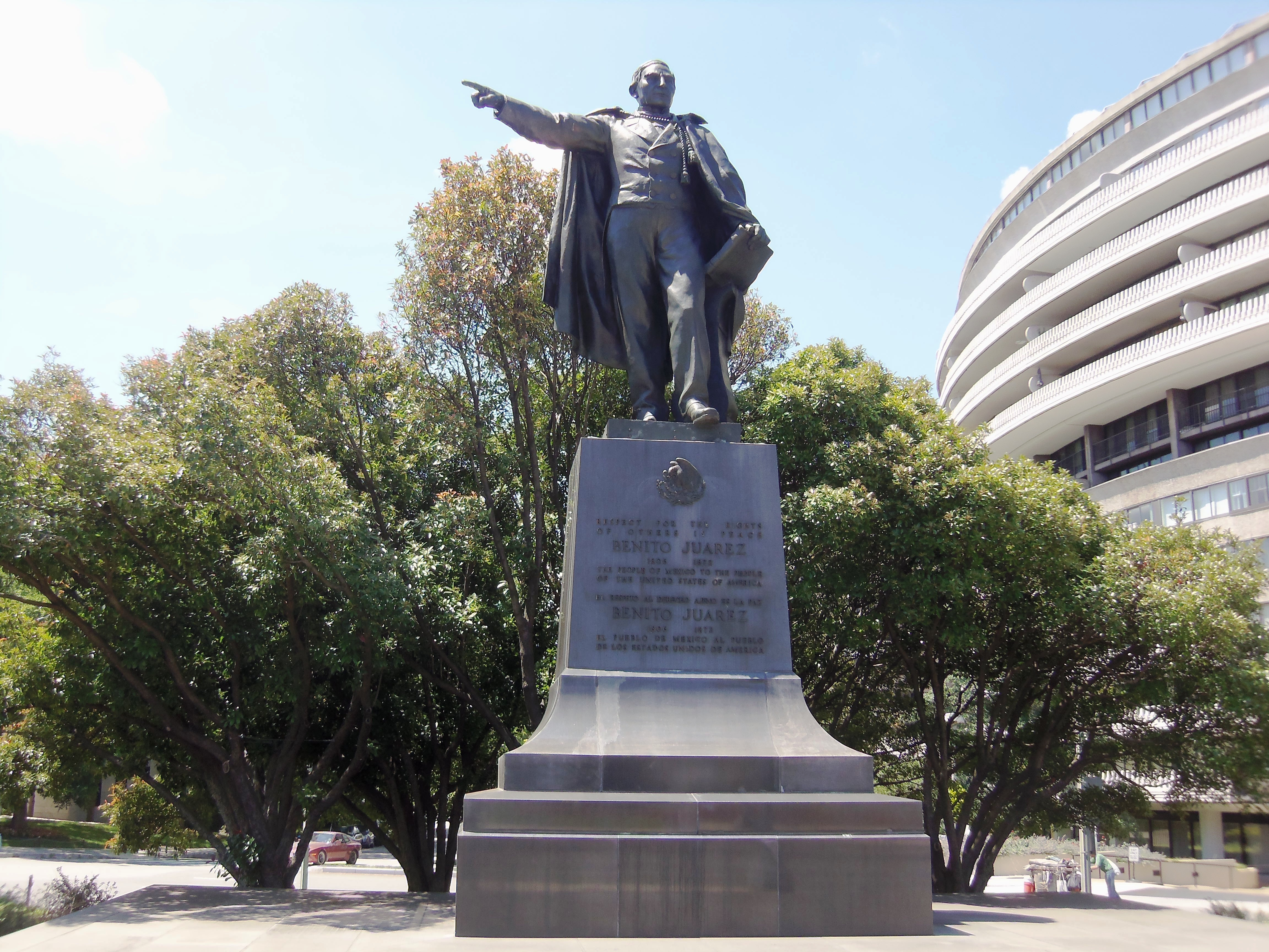 The statue of Benito Juarez is among the statues of the Liberators of western-hemisphere countries from colonial rule found along Virginia Avenue, N.W., in Washington, D.C.